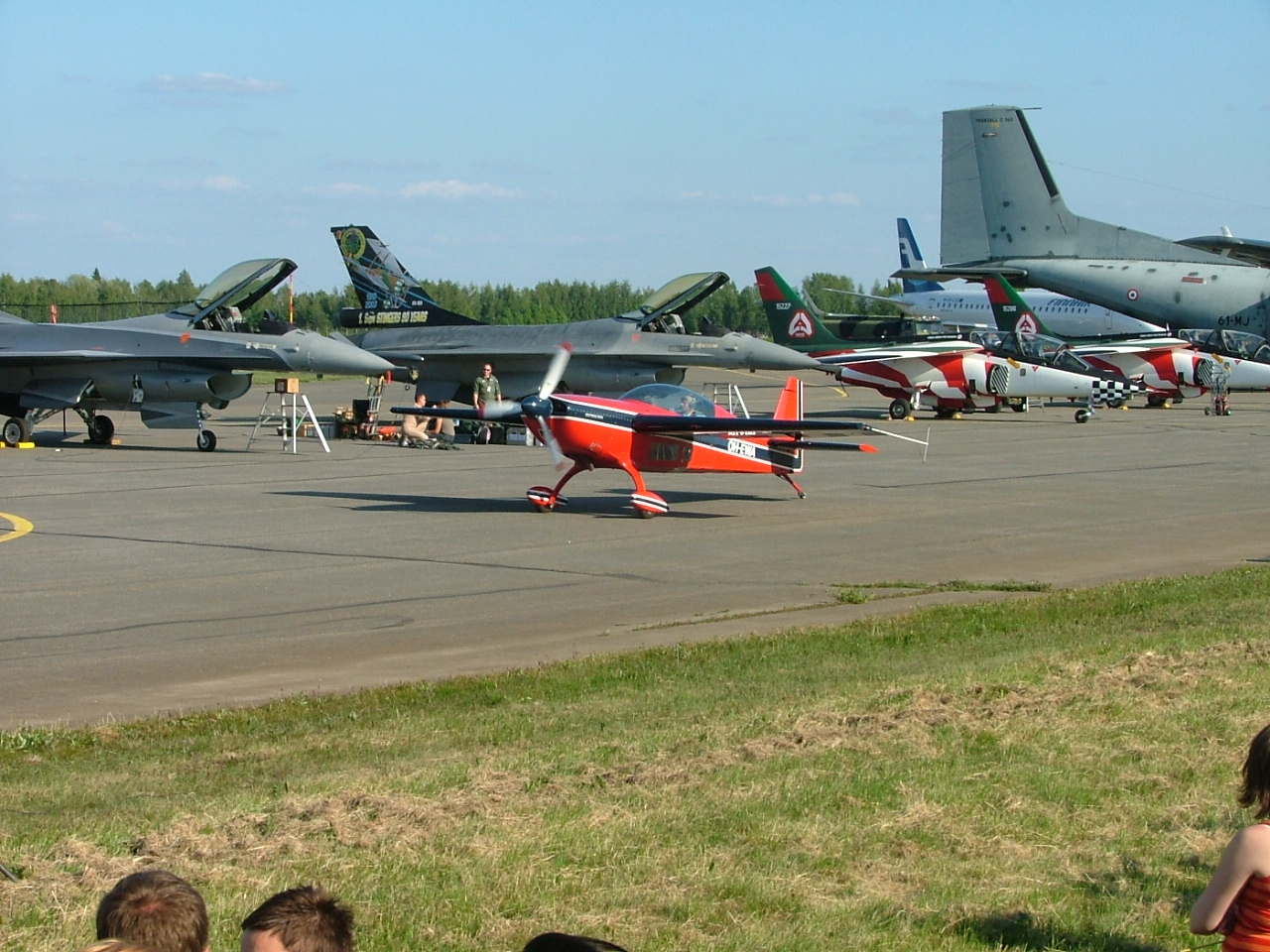 Aircraft at Midnight Sun Airshow at Kauhava Airport in 2007